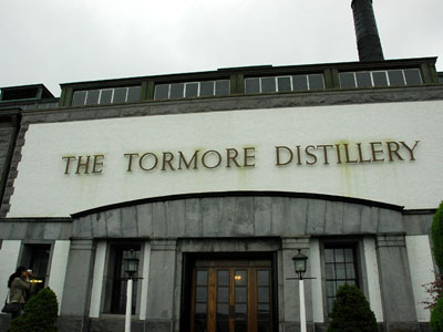 The Tormore Distllery, in Speyside, Highland, Scotland.